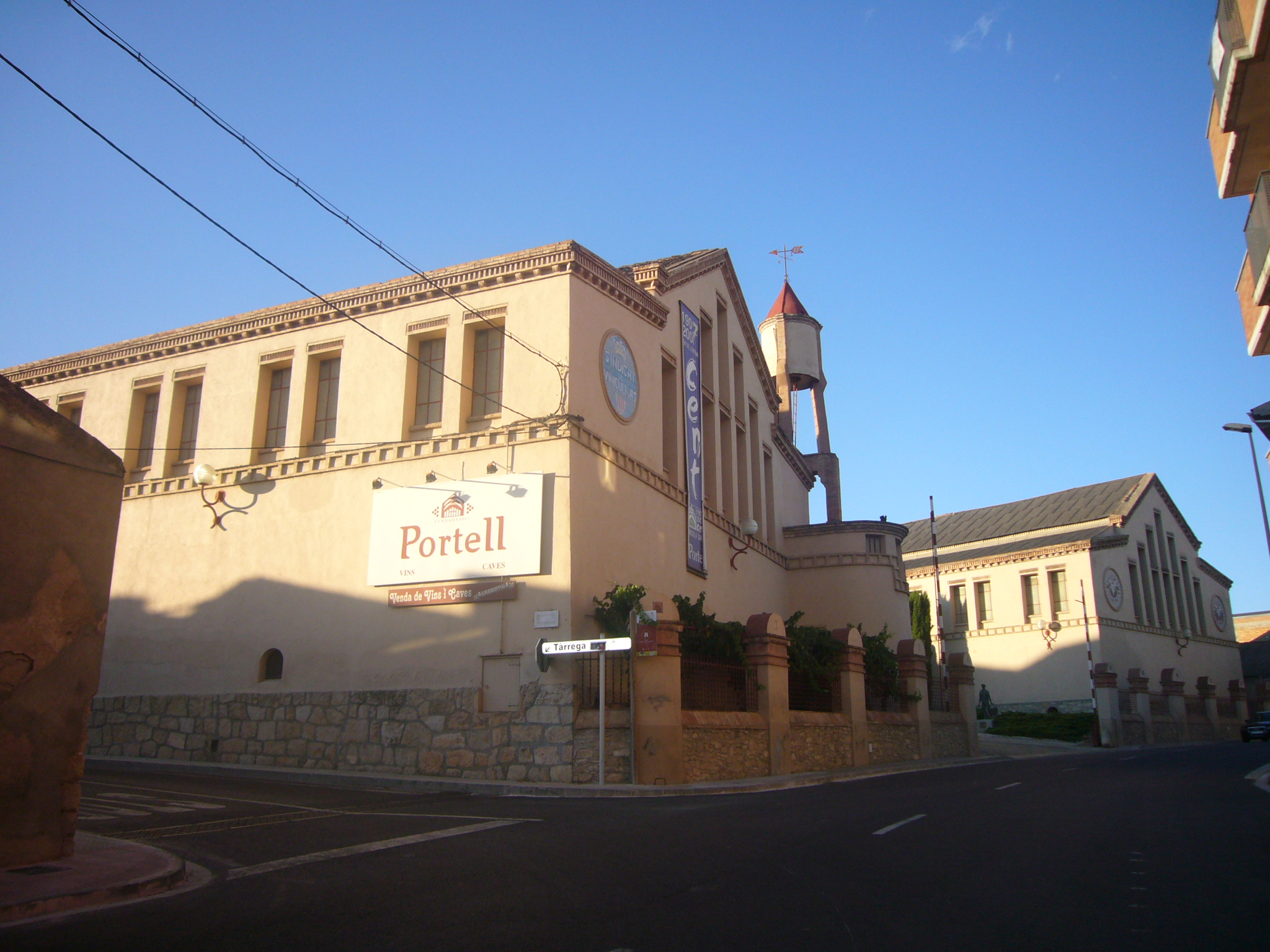 Two buildings of the winery "Celler Cooperatiu de Sarral". Left building from 1914, and right side one, almost identical to the first one, from 1934.